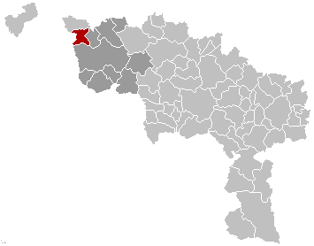 Map, municipality belgium Estaimpuis